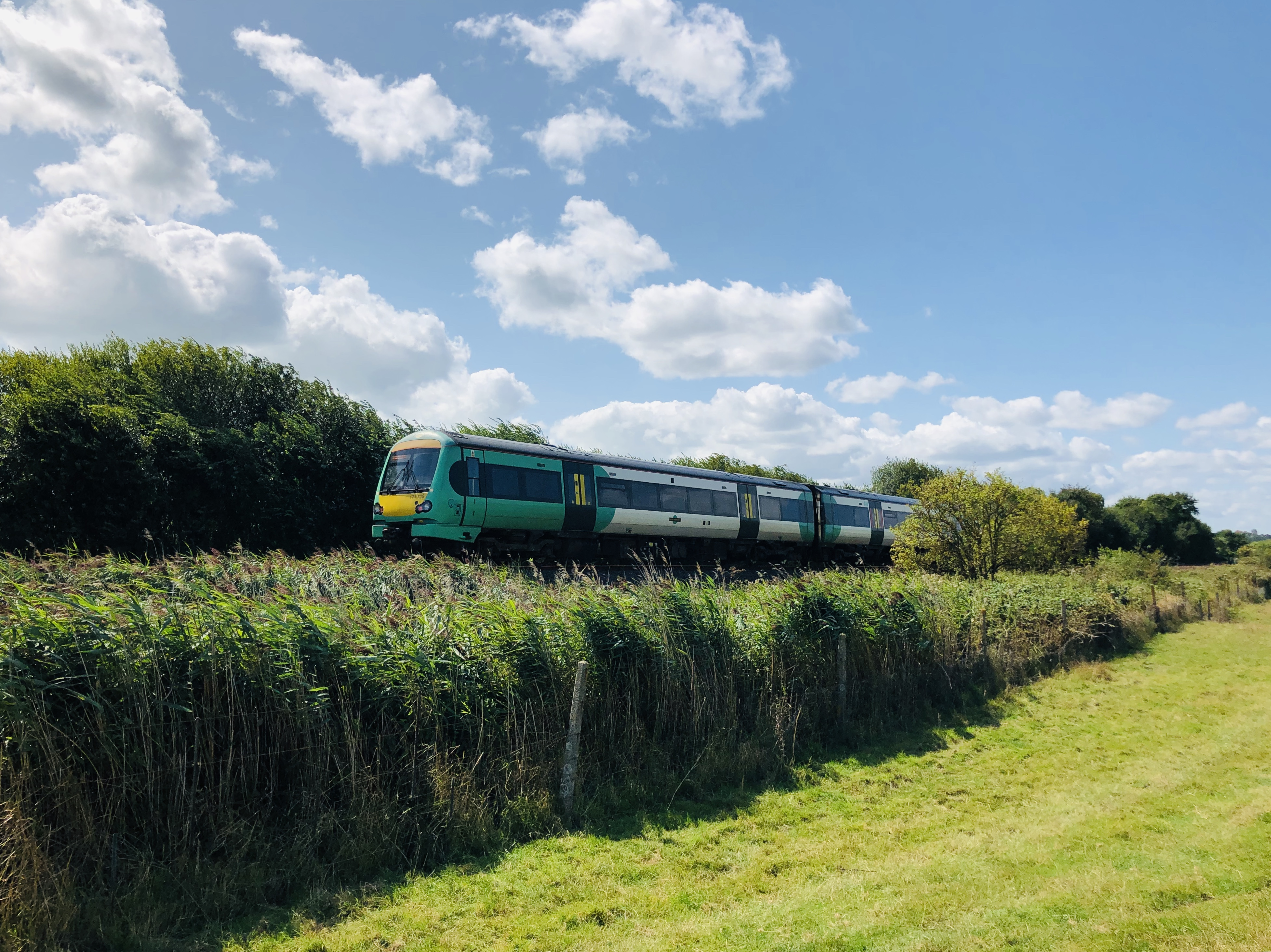 A Southern Class 171 (171 725) seen here passing through fields surrounding the River Brede just west of Winchelsea. This train formed the 12:24 service from Ashford International to Eastbourne.